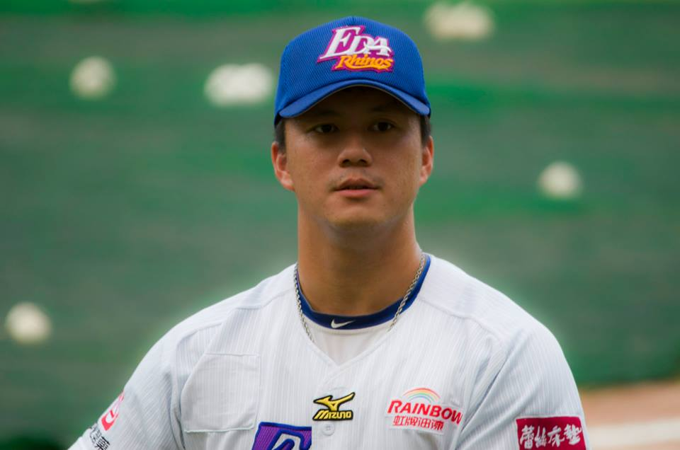 Kuo-Hui Kao at a baseball game of Xinzhuang District of Taiwan in July 17, 2013.